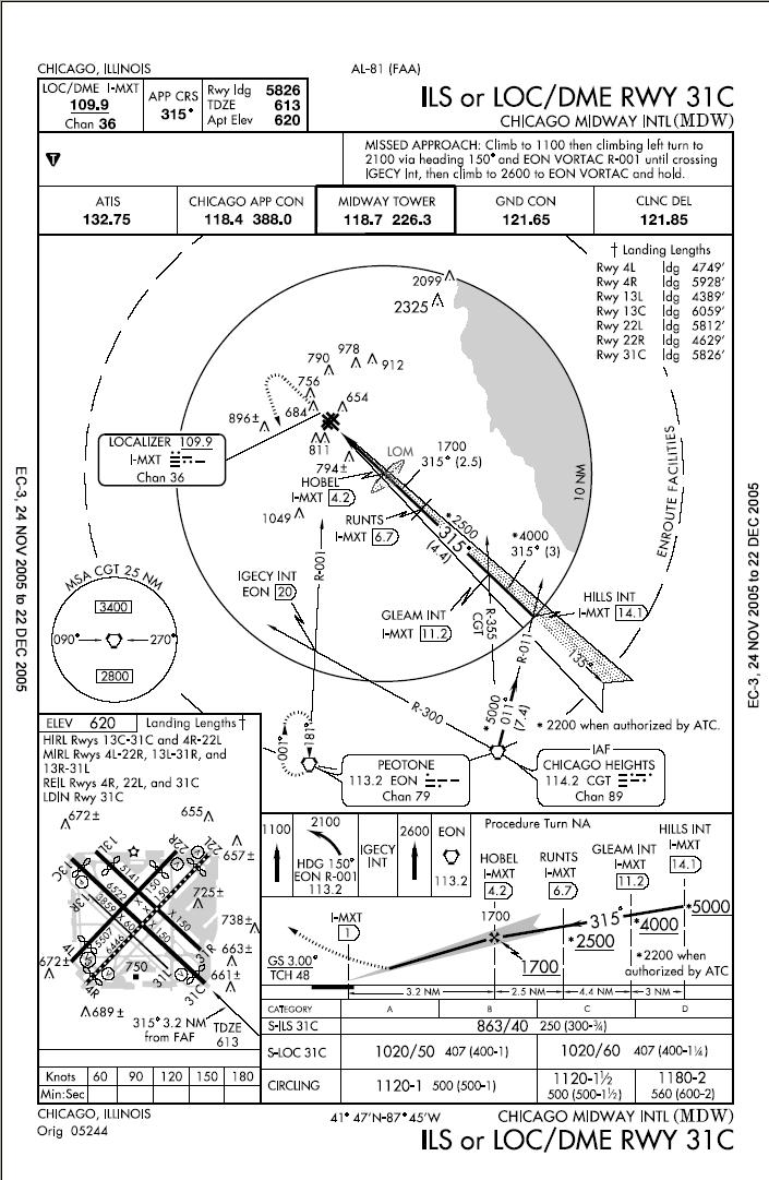 ILS or LOC/DME RWY 31C approach chart. Prepared by the National Aeronautical Charting Office for the Federal Aviation Administration. Minimums listed in lower right indicate with an operating Instrument Landing System a pilot can safely descend to 863' above sea level or 250' above ground level with a runway visual range of 4,000'. No longer valid for navigation.